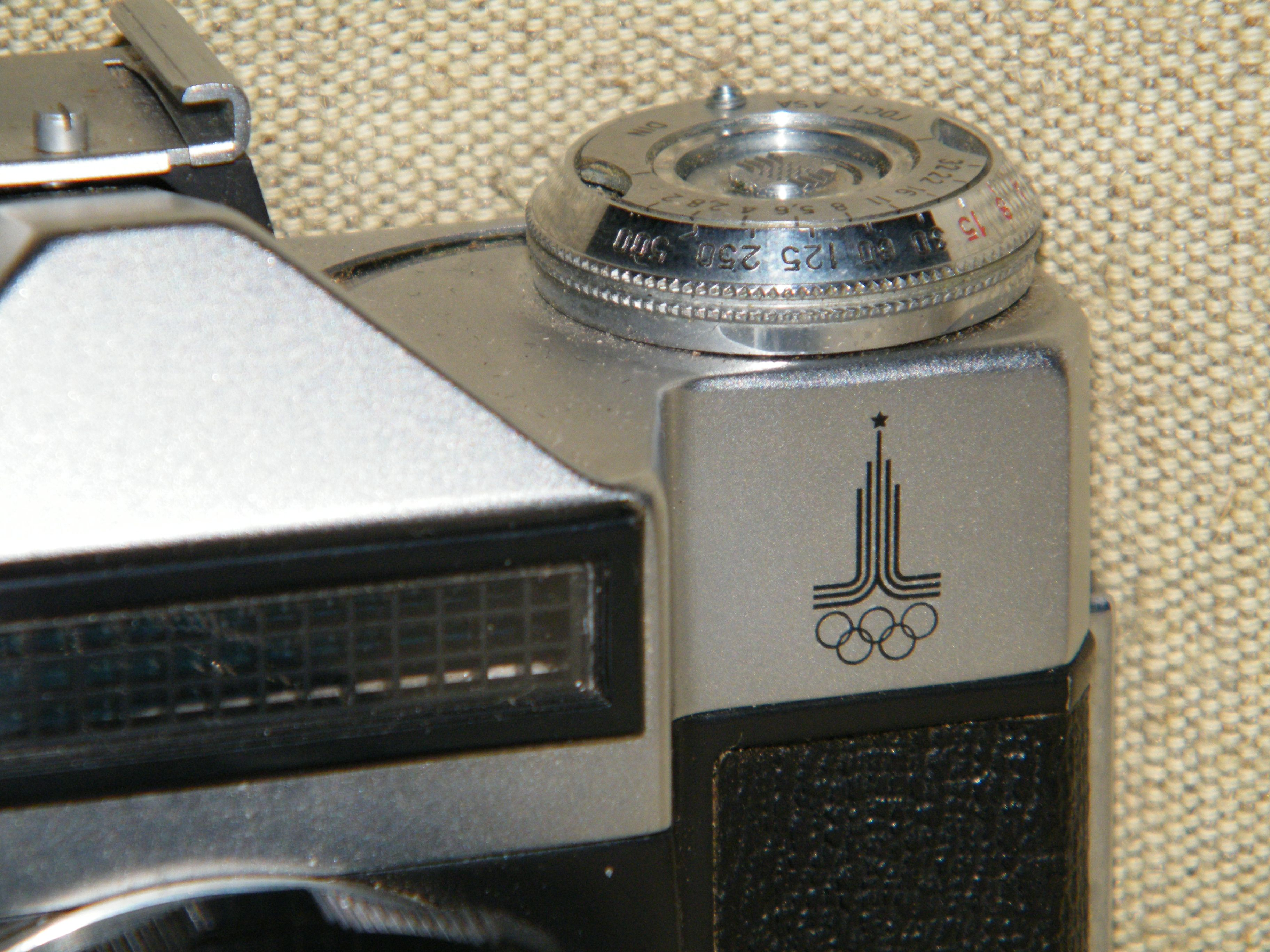 Zenit E